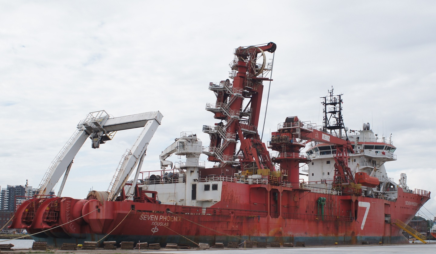 Seven Phoenix, construction / flex-lay vessel, at pier in Gdansk